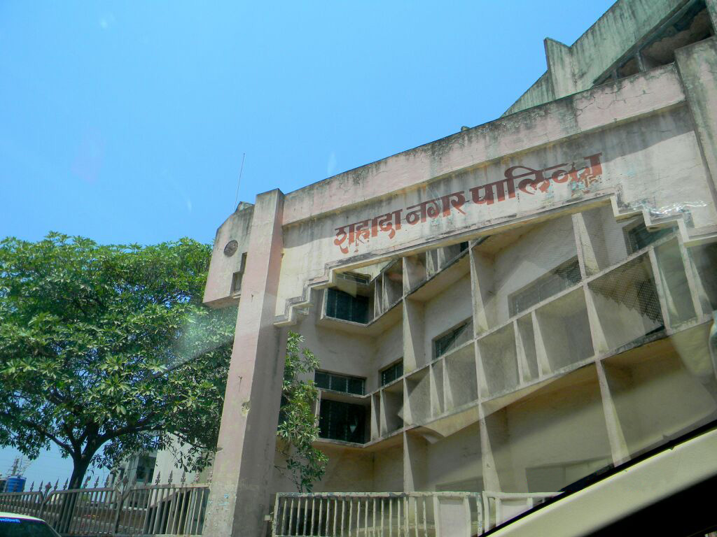 Municipal Corporation Shahada